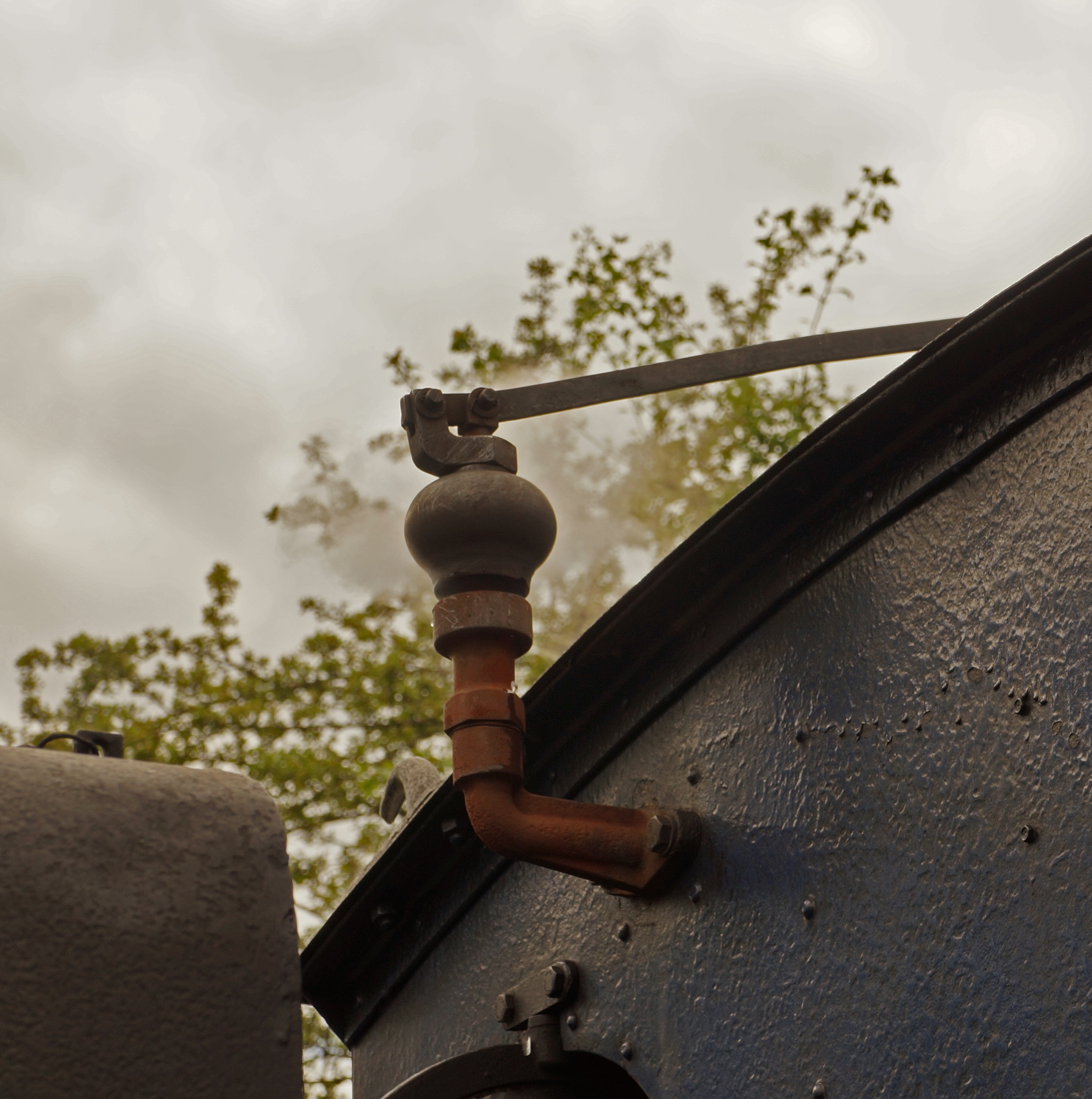 Steam whistle of a steam locomotive